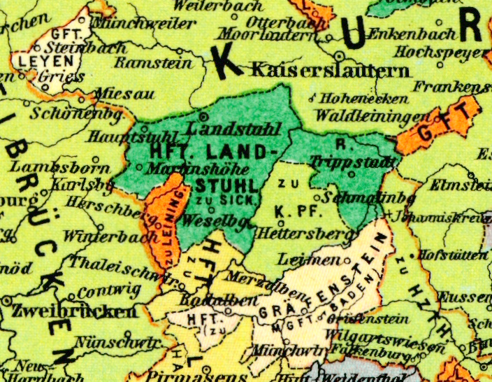 map of the lordship of Landstuhl